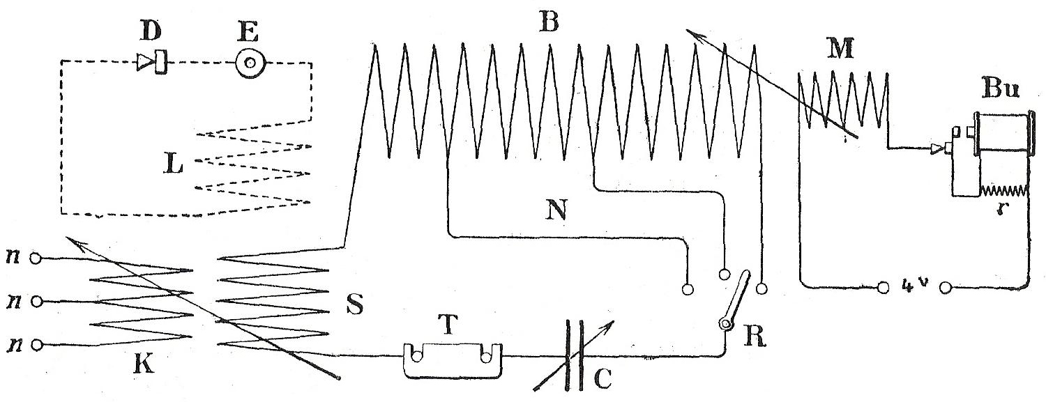 Wave measures, ous griddip, meter of the wave. 1914.